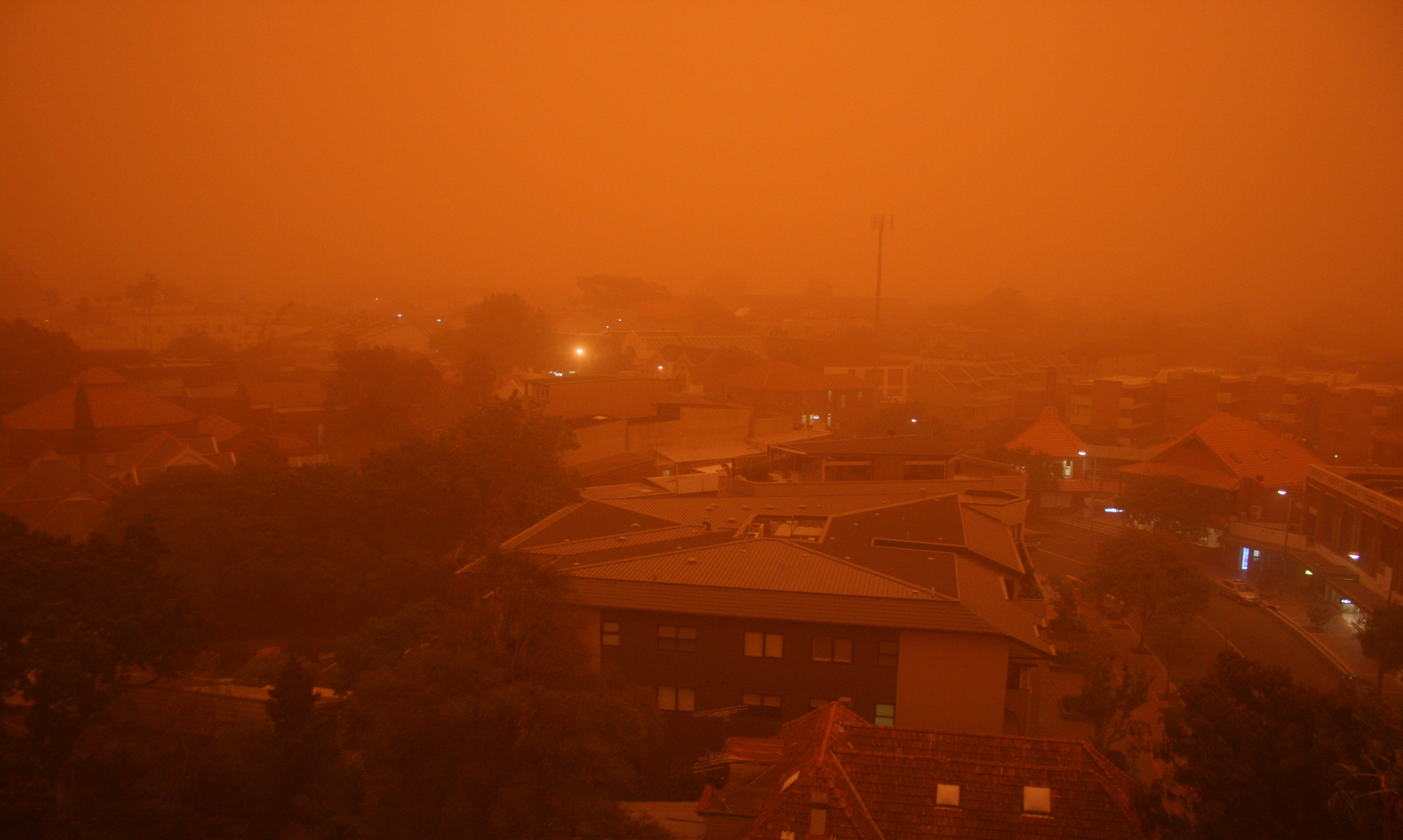 Sydney 6am. 23 September 2009. Raw image. Cropped bottom only. No colour changes.